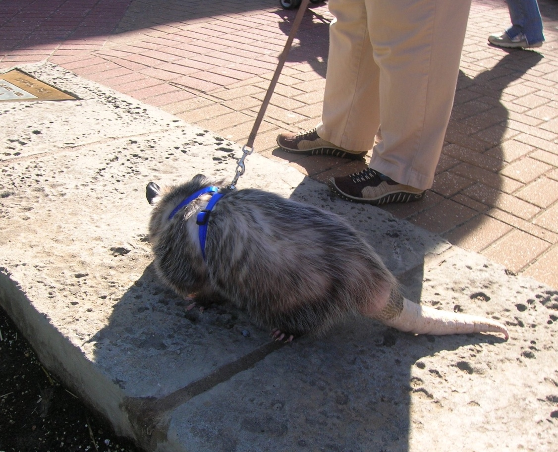 An opossum at the Memphis Zoo being walked on a harness and leash—I believe it was abandoned as a baby, so they took care of it, and, being raised in captivity, was not able to be released back into the wild because it would not know how to survive on its own.